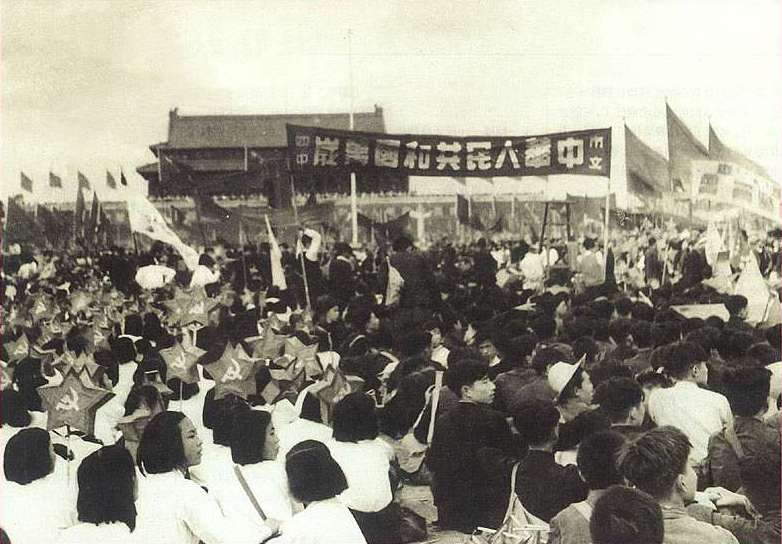 Students and teachers of Beijing No.4 High School participating in the ceremony for the founding of People's Republic of China. The banner reads "Long live the People's Republic of China", signed with "No.4 Public High School", the name of Beijing No.4 High School at the time.